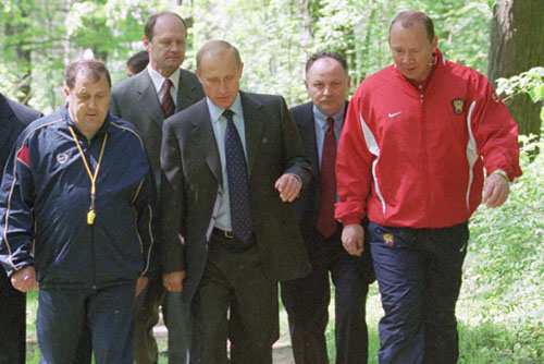 MOSCOW. President Putin with head coach of the Russian football team Oleg Romantsev (right) and senior coach of the Russian football team Mikhail Gershkovich (left) at the Russian football team training camp.